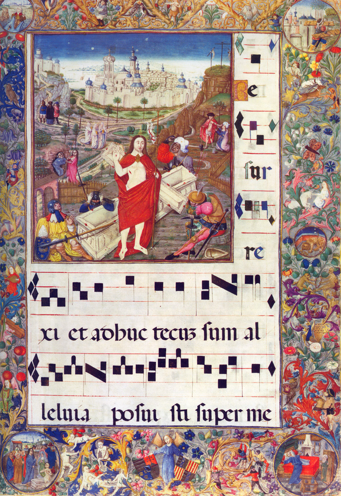 Page from the Matthias Graduale, 15th century